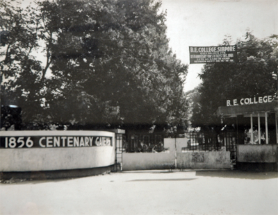 Gate of B.E. College Shibpur, now Bengal Engineering and Science University, Shibpur. As the name was only used in 1920, this is probably the year in which the picture was taken.